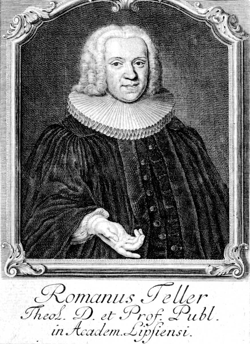 Romanus Teller (1703-1750) german lutheran theologian